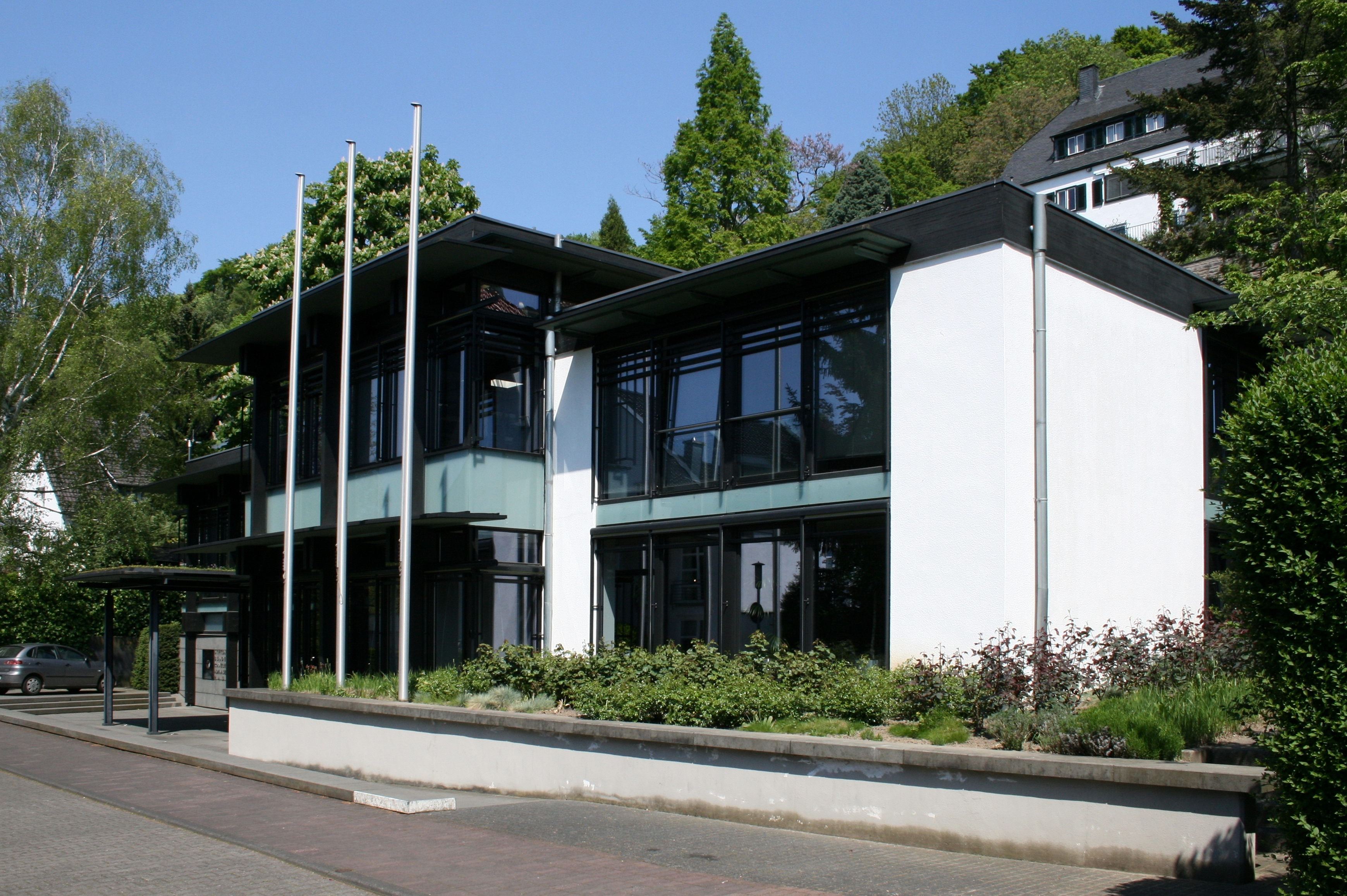 Germany: Headquarters of the Stiftung Bundeskanzler-Adenauer-Haus (Foundation Chancellor Adenauer House); in the background right above the former home of Adenauer, now a memorial.